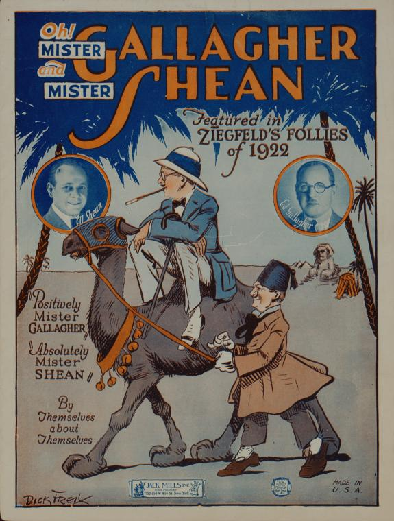 Sheet music "Oh! Mister Gallagher and Mister Shean" from 1922 Ziegfield follies